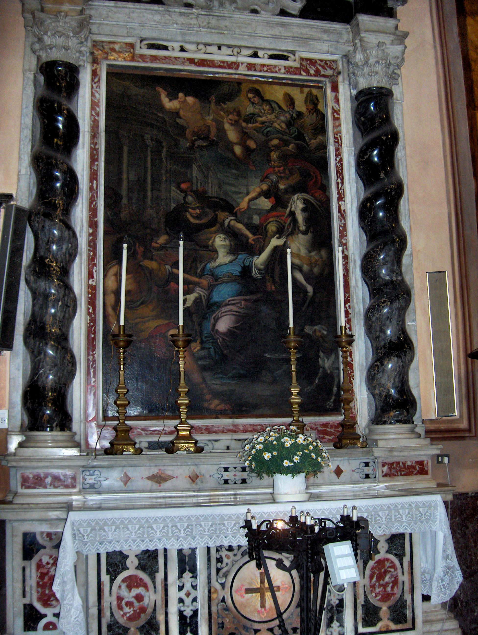 Altar of Santa Lucia; painting by Giulio Benso (1601-1668); Church of S. Ambrogio; Alassio, Italy